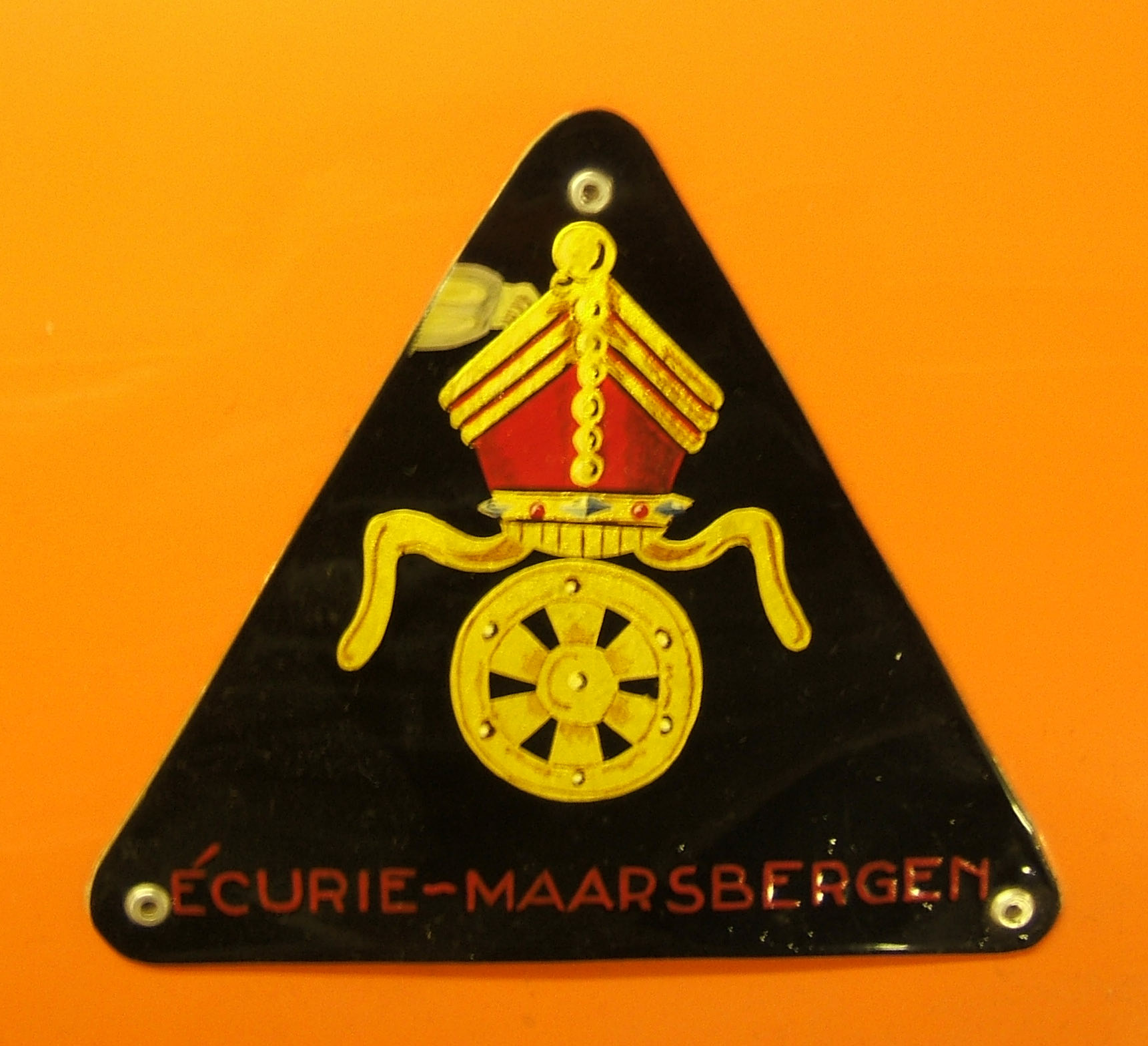 Carel Godin de Beaufort's Ecurie Maarsbergen badge, mounted on the side of one of his Porsche 718 Formula One cars. At the Donington Collection museum, Leicestershire, UK.